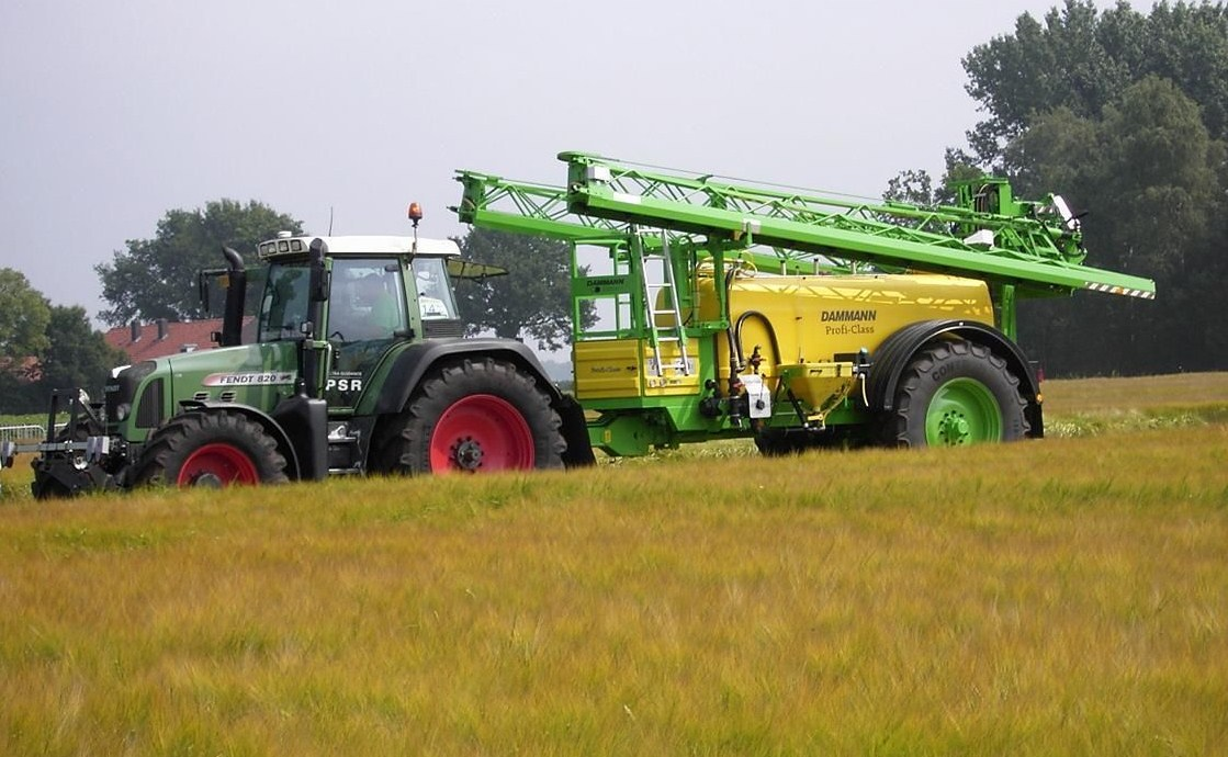 Fendt 820 Vario tractor with a Dammann sprayer; in front of the tractor a machine to steer the tractor